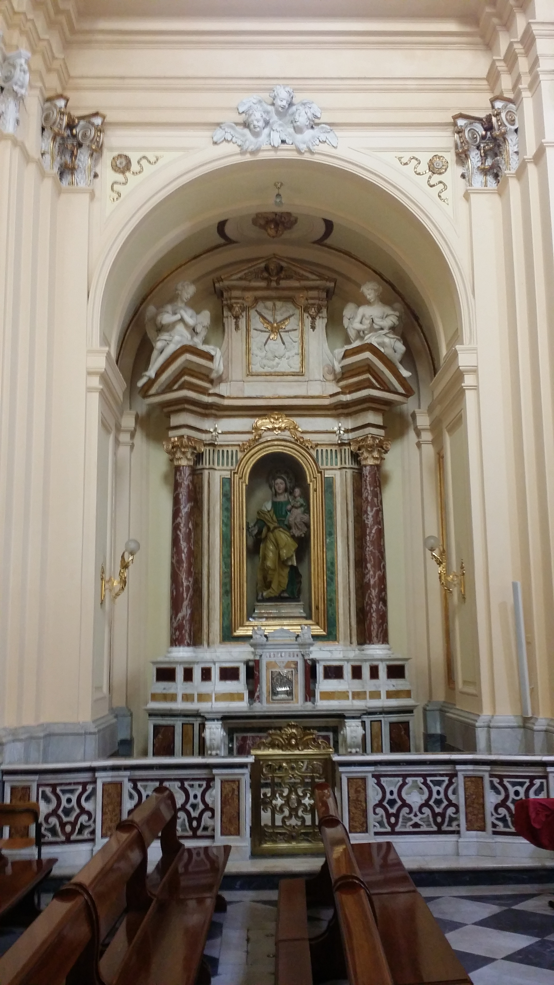 the minor altar of Sant'Anna located in the collegiate of San Giovanni Battista